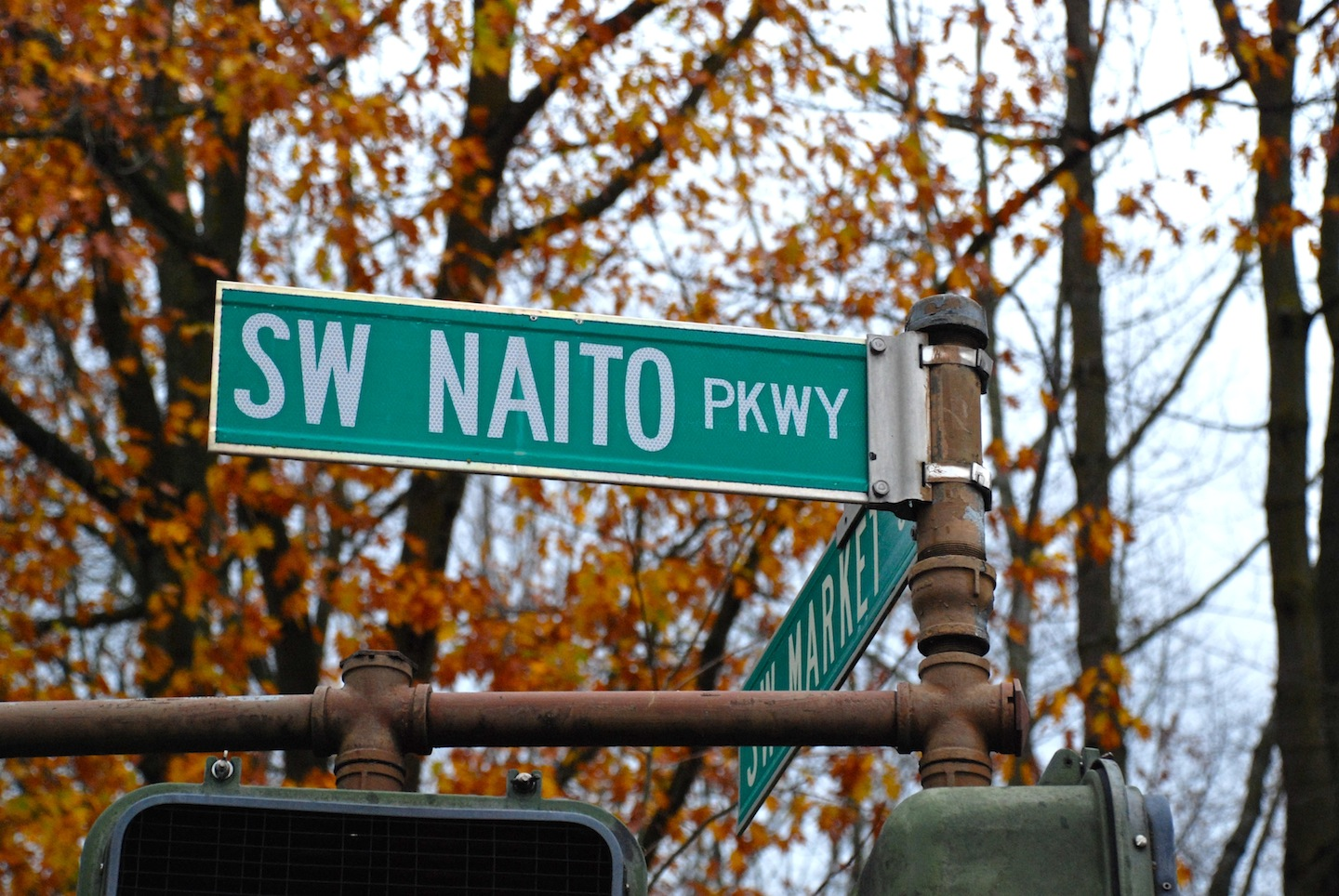 Street sign identifying Portland, Oregon's Naito Parkway at its intersection with Market Street. The street was renamed from Front Avenue to Naito Parkway in 1996 in honor of the late Bill Naito.